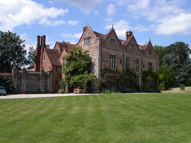 Greys Court, Rotherfield Greys, Oxfordshire